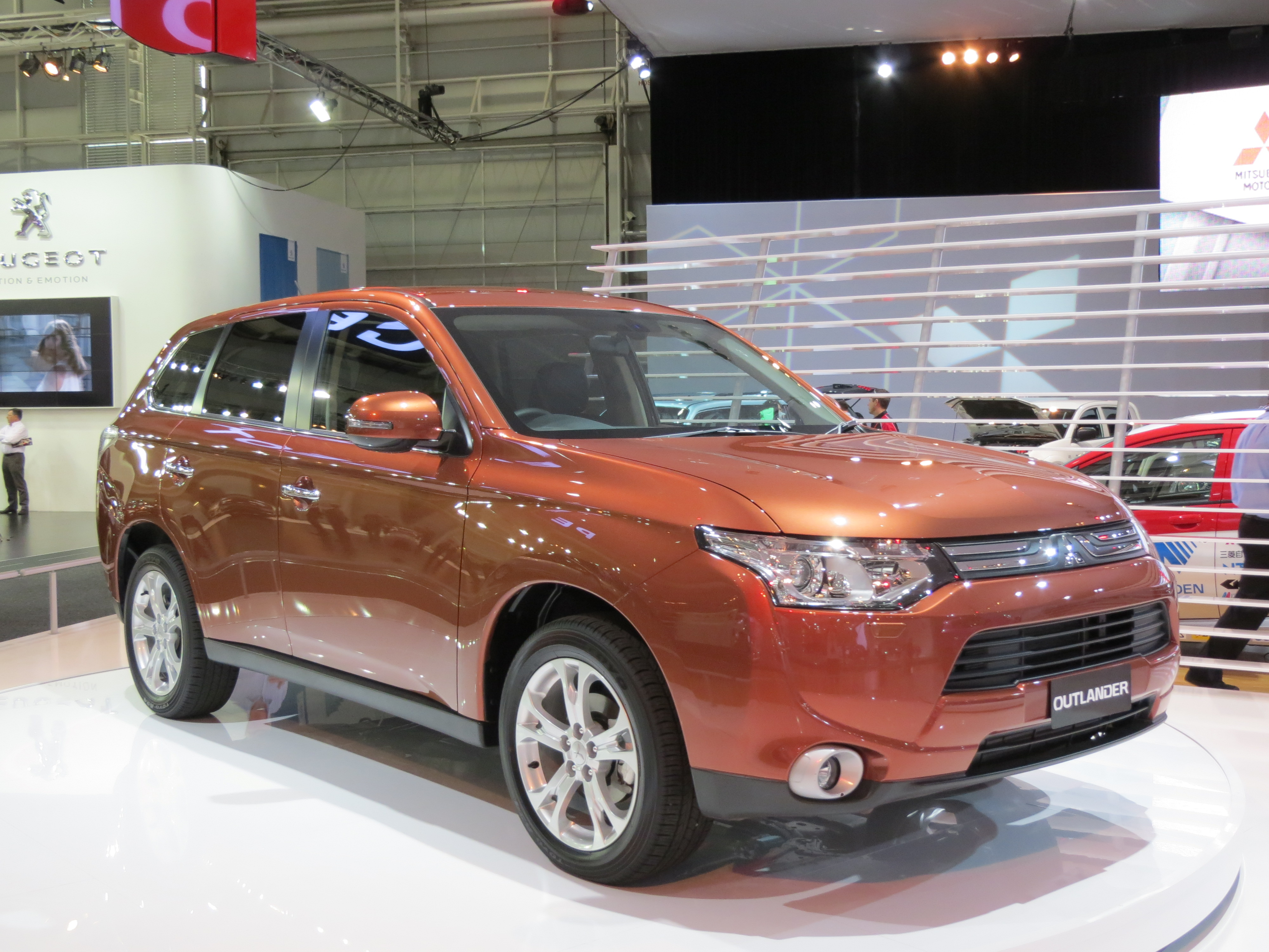 2012 Mitsubishi Outlander (ZJ MY13) Aspire wagon. Photographed at the 2012 Australian International Motor Show, Sydney, New South Wales, Australia.